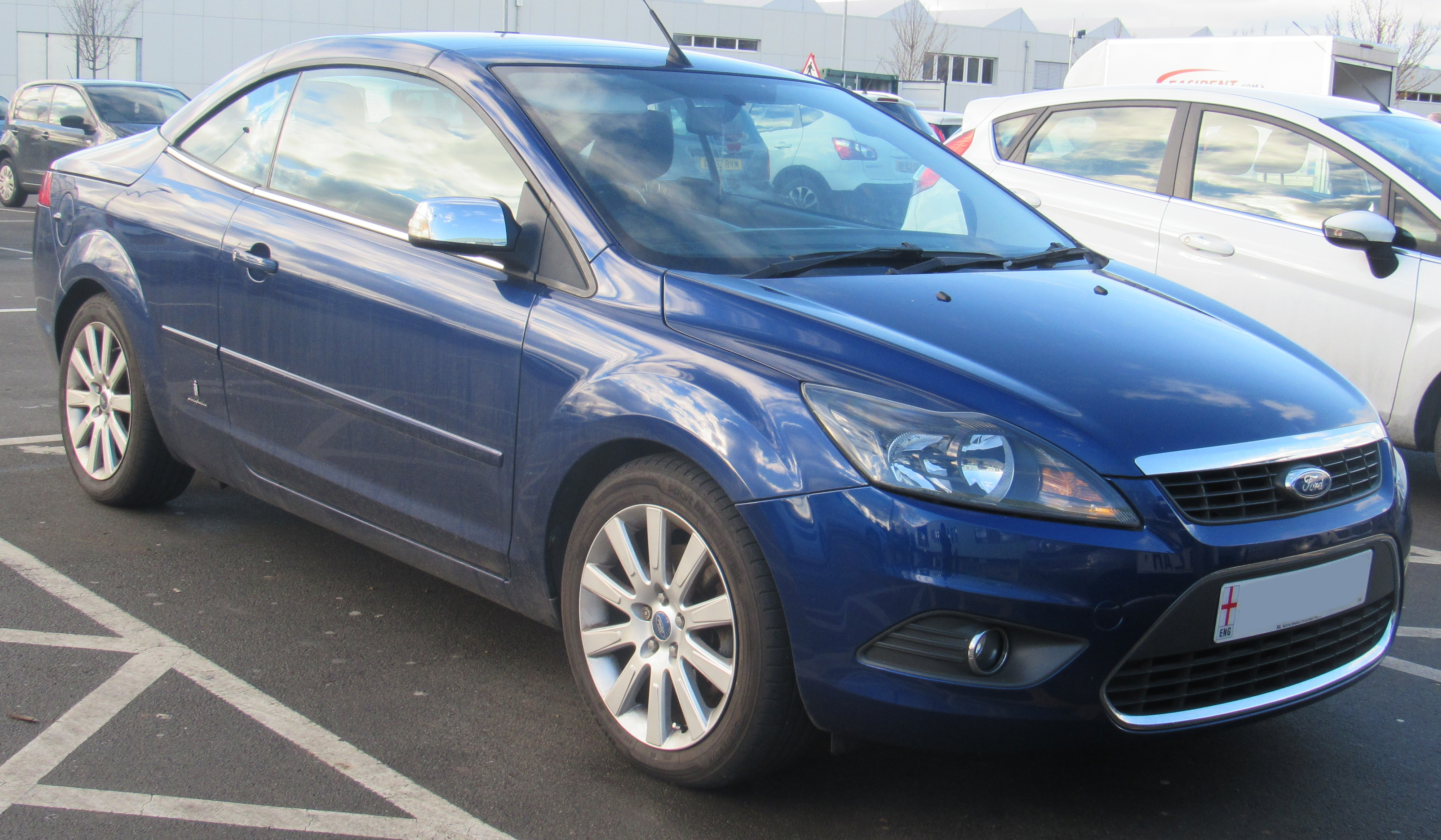 2009 Ford Focus CC-2 Automatic 2.0 Front Taken in Leamington Spa